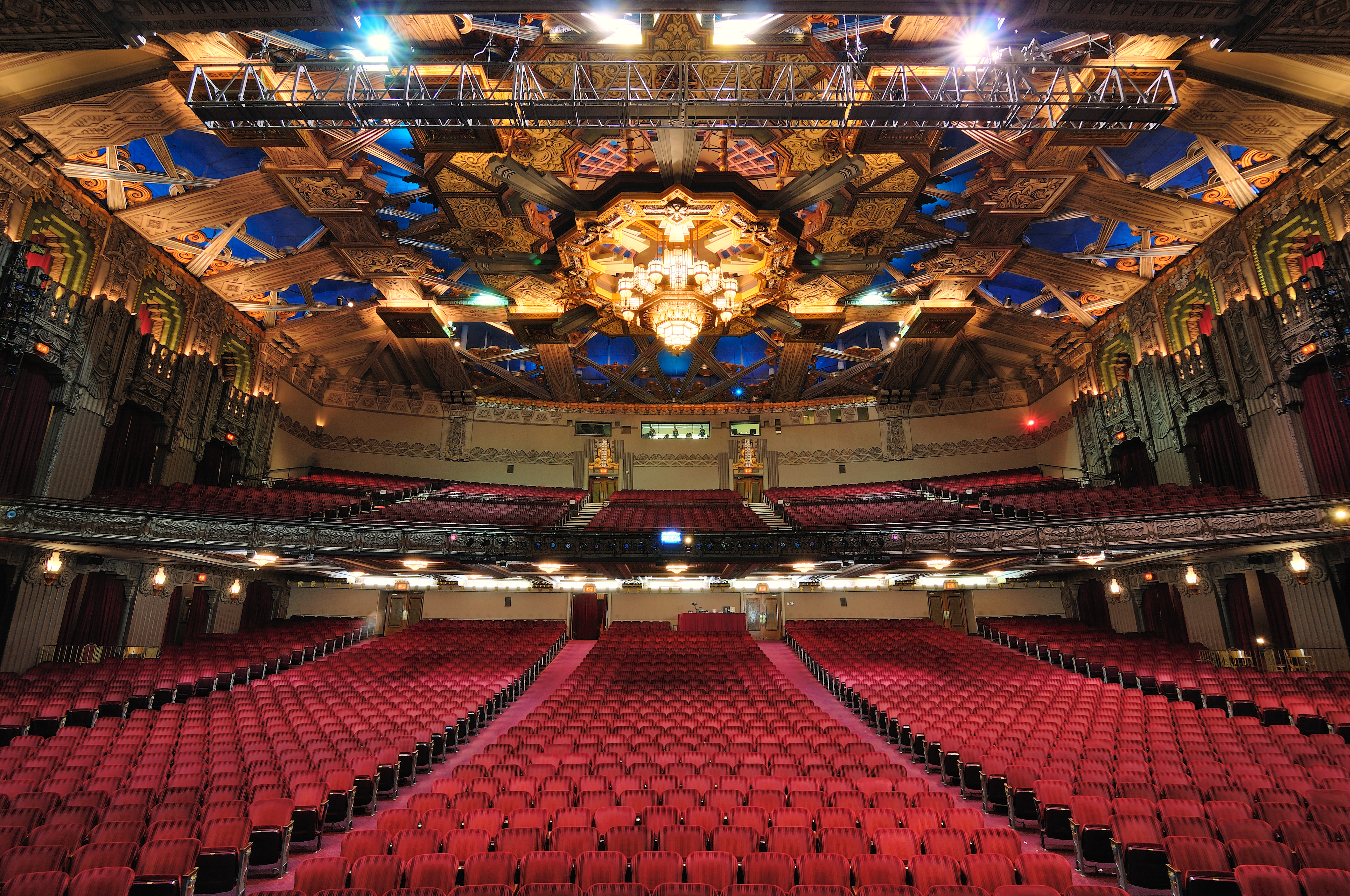 View standing on the stage of the Pantages Theatre in Hollywood, CA Taken during the Fiddler on the Roof tour.